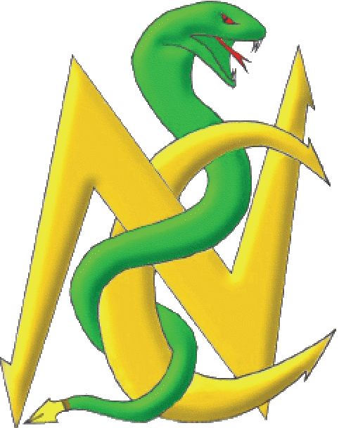 logo of News papers "Numerus clausus" - pharmacy's University - Amiens